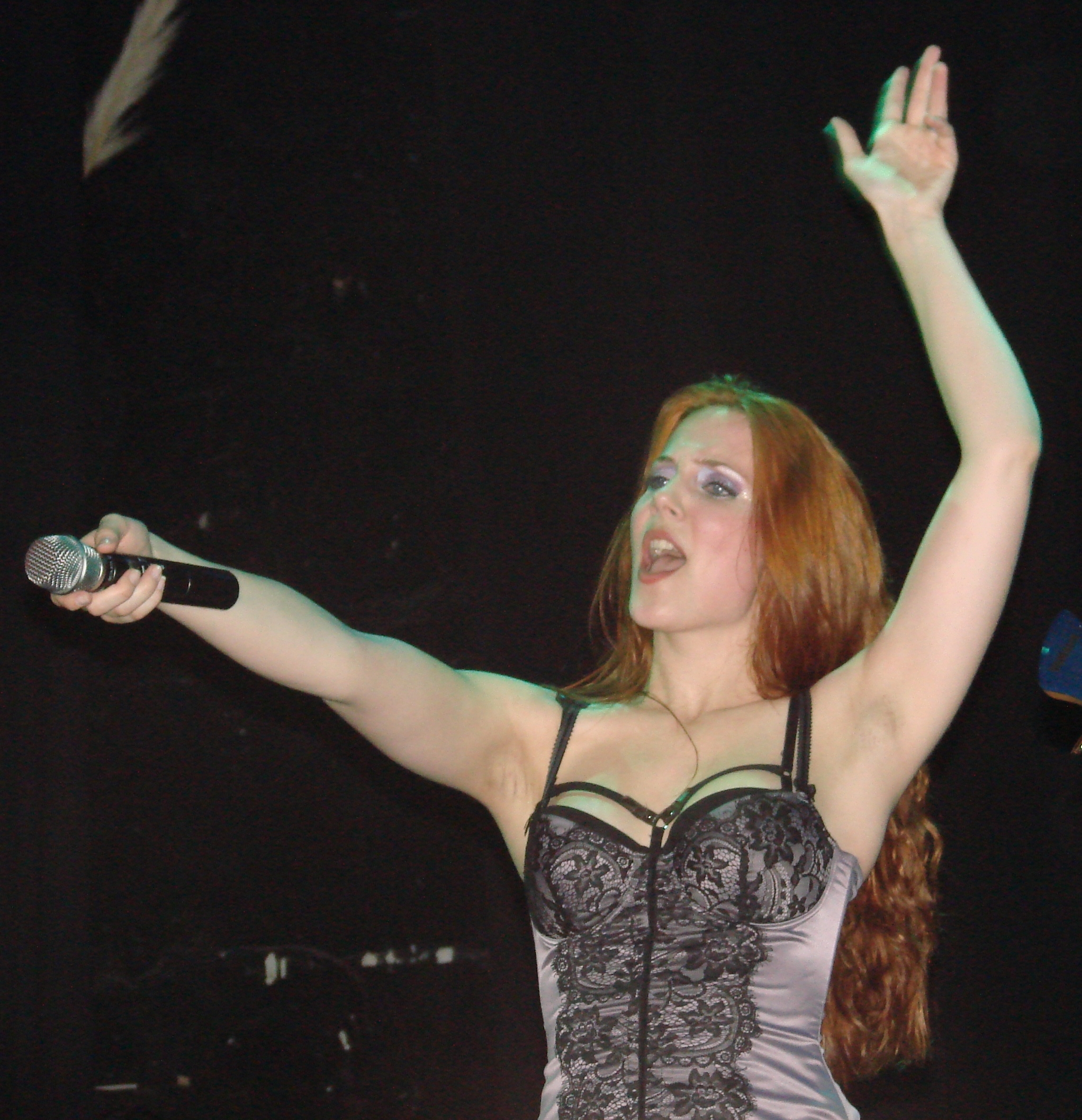 Simone Simons, singer of Dutch symphonic metal band Epica, during a concert done in ND Ateneo theatre in Buenos Aires, Argentina on April 30, 2007.